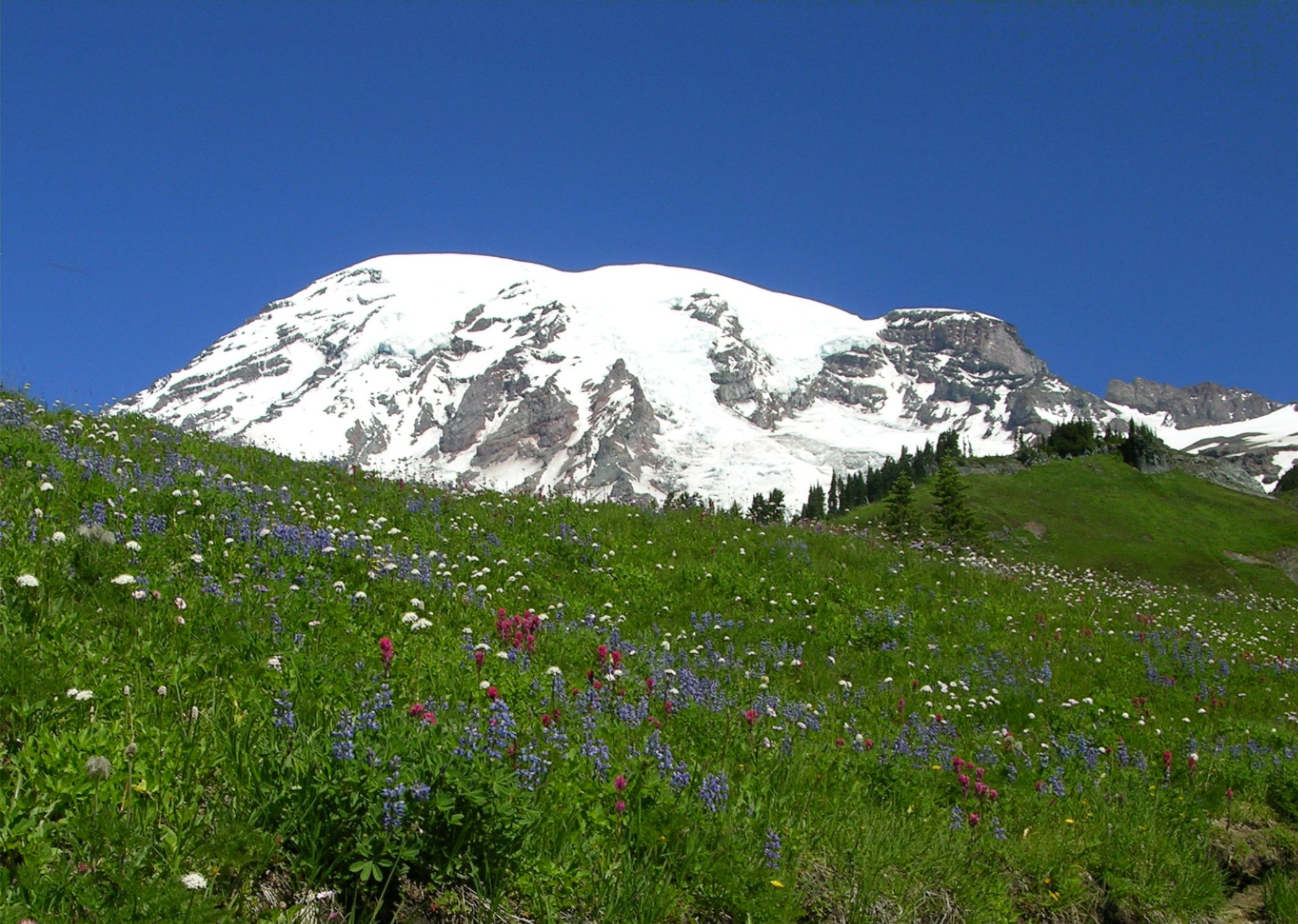 Meadow near Mount Rainier, Washington